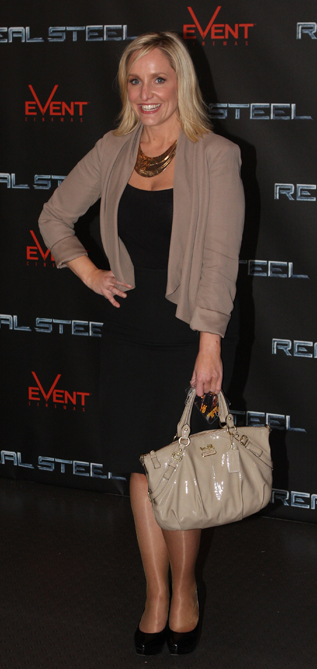 Fifi Box at the Sydney film premiere of Real Steel.